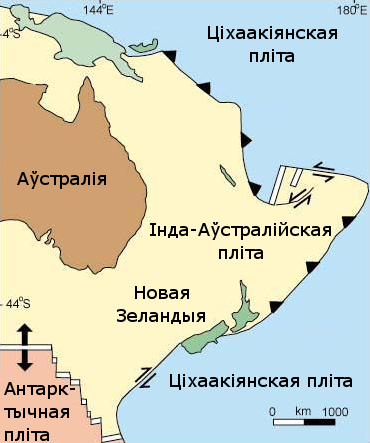 New Zealand tectonics map in Belarusian based on NZ_transform_(deutsch).JPG from German Wikipedia